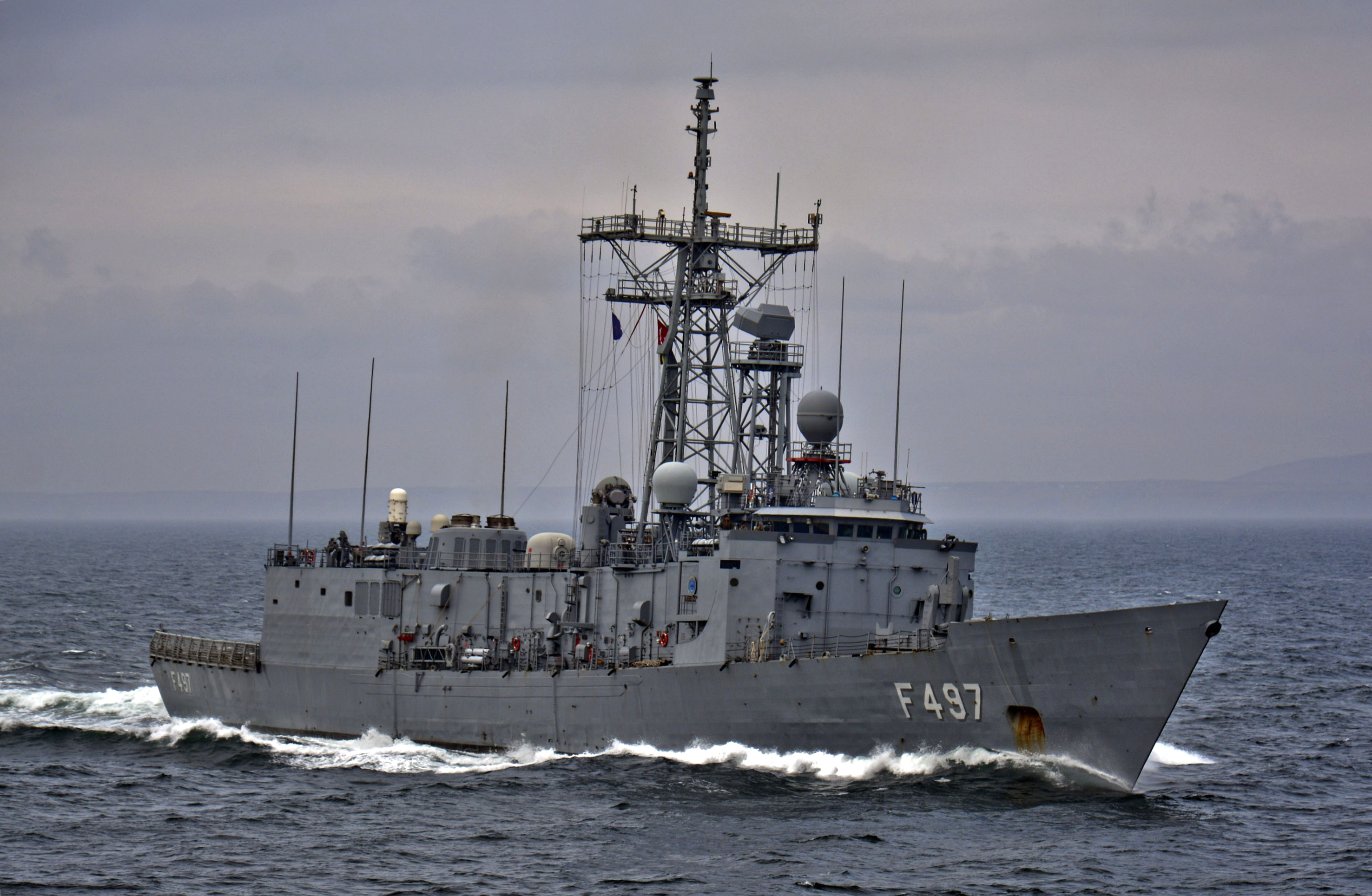 The Standing NATO Maritime Group 2 (SNMG2) Turkish ship TCG Göksu (F 497) participates in ship maneuvering exercises as a part of Joint Warrior, Europe's largest multinational multi-warfare exercise in the Minch off Scotland (UK). NATO's Standing Naval Forces, SNMG2, and Standing NATO Mine Counter Measures Groups 1 and 2 were participating in Joint Warrior with 55 warships and submarines, and 70 air assets from Allied countries. In total, the exercise involved approximately 14,000 personnel training and operating together to develop specific war fighting skills through diverse training and credible scenario development. TCG Göksu (F 497) was commissioned as USS Estocin (FFG-15) from 1981 to 2003.